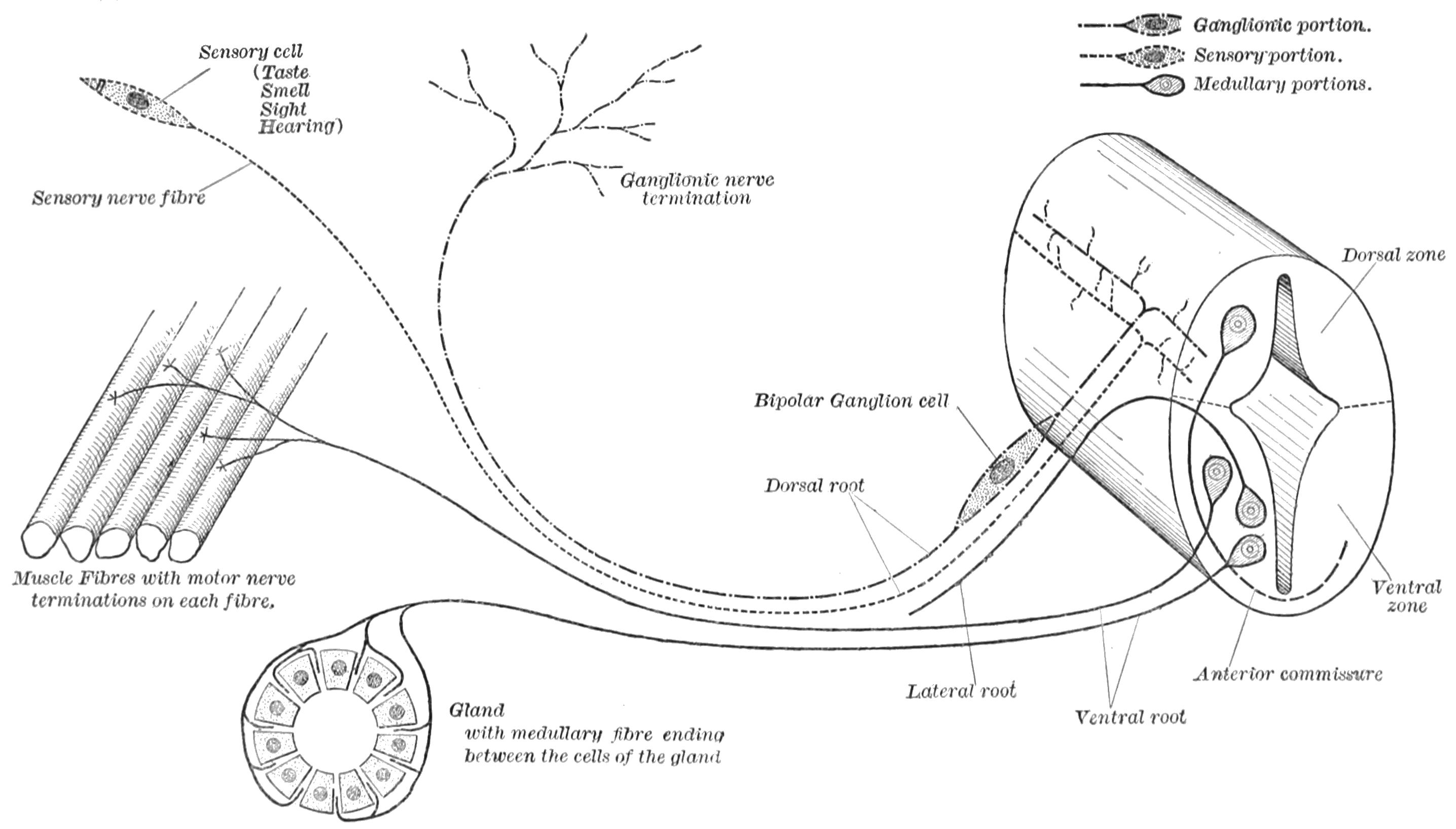 Diagram of the origin and termination of nerve fibres